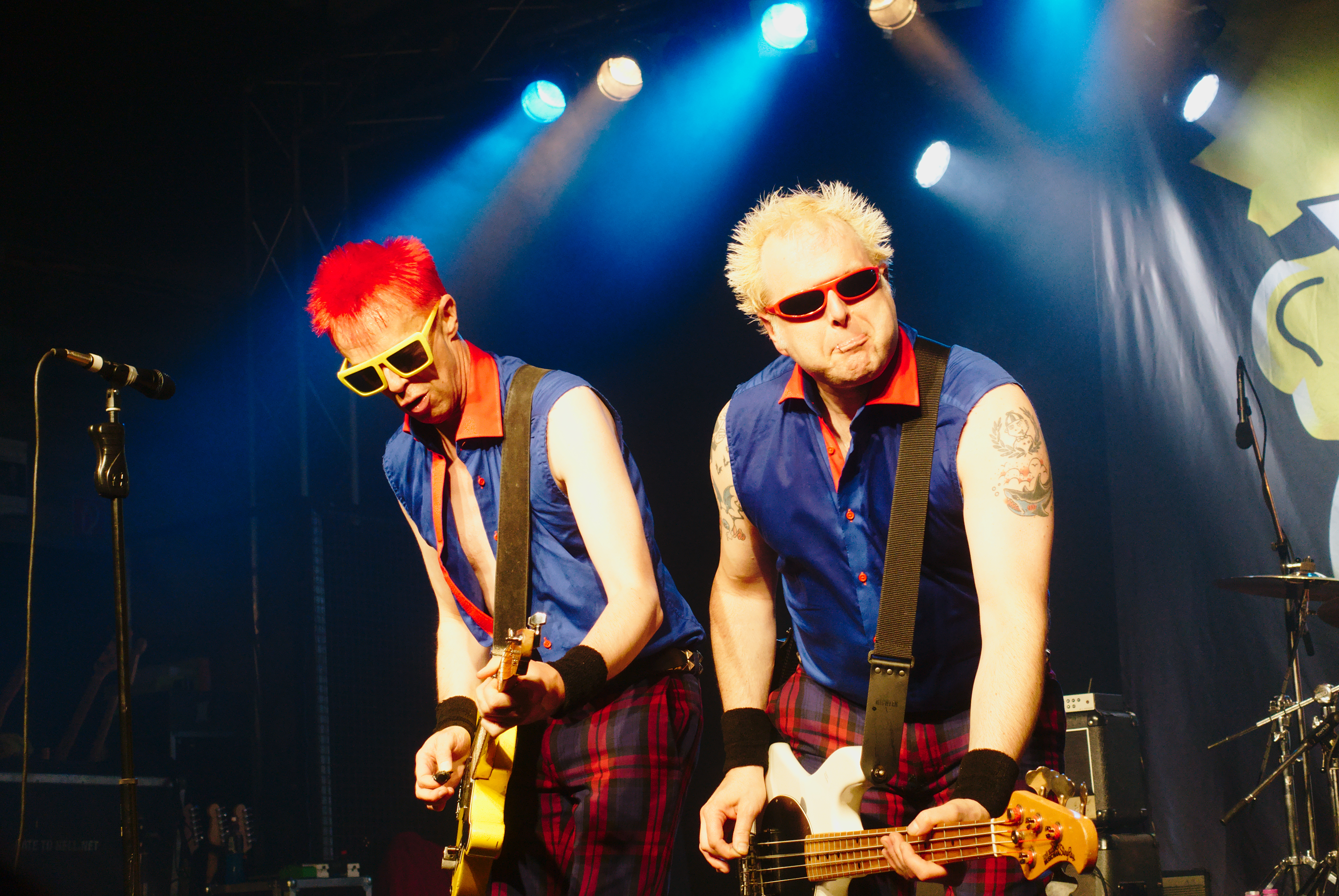 Toy Dolls live in Stuttgart, Germany. 40th Anniversary Tour